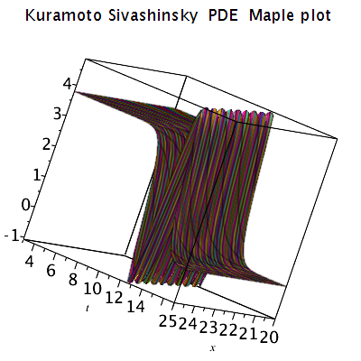 Kuramoto-Sivashinsky pde Maple 3d plot